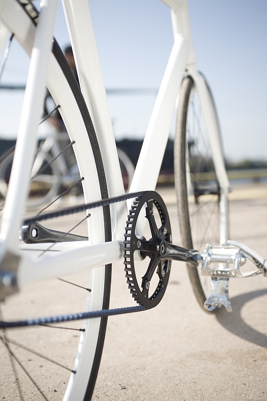 belt drive system applied on Schindelhauer Viktor